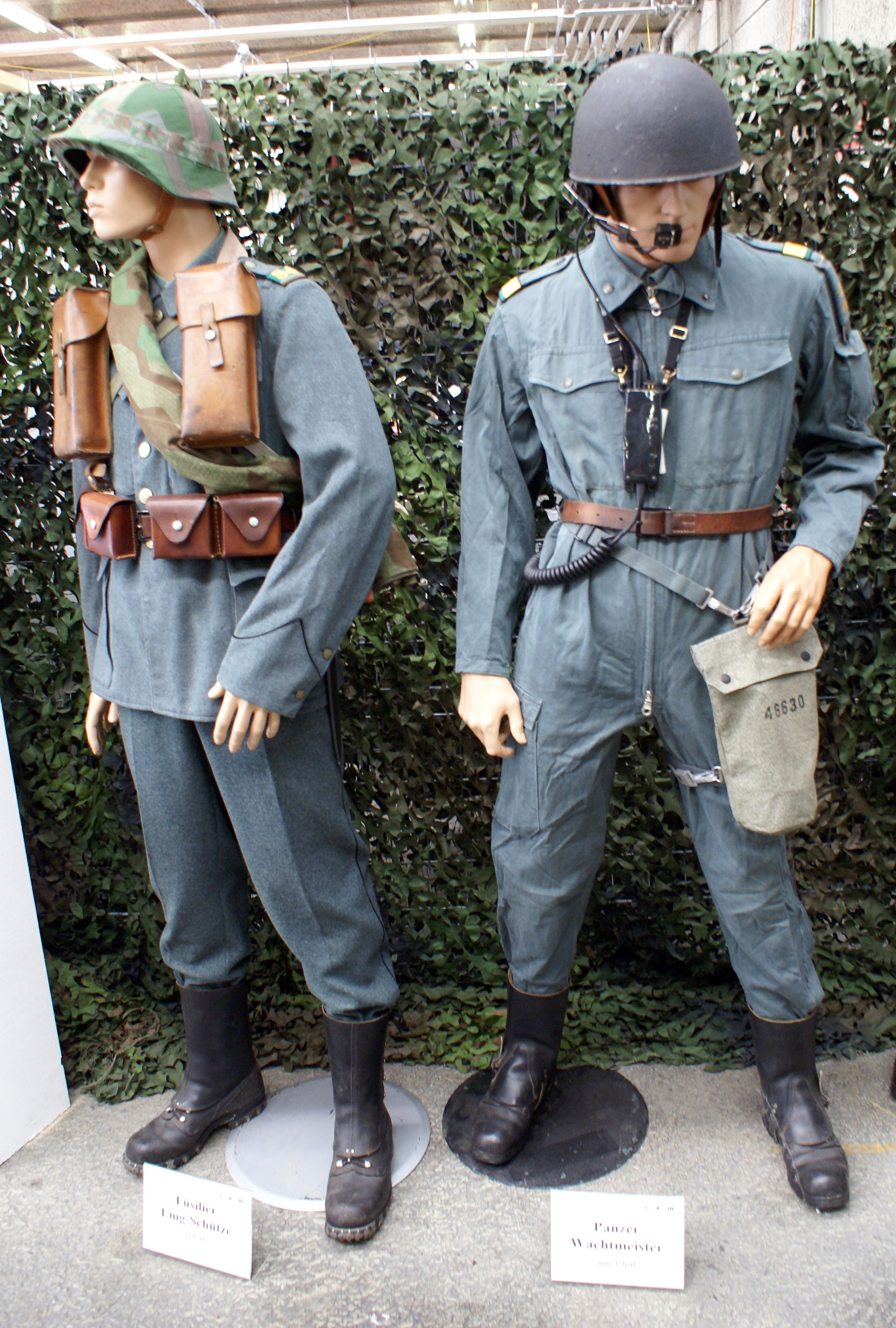 Swiss Army. Left, infantryman, LMG operator, uniform of 1950. Right, tank sergeant, uniform of around 1960. Swiss Army Museum.